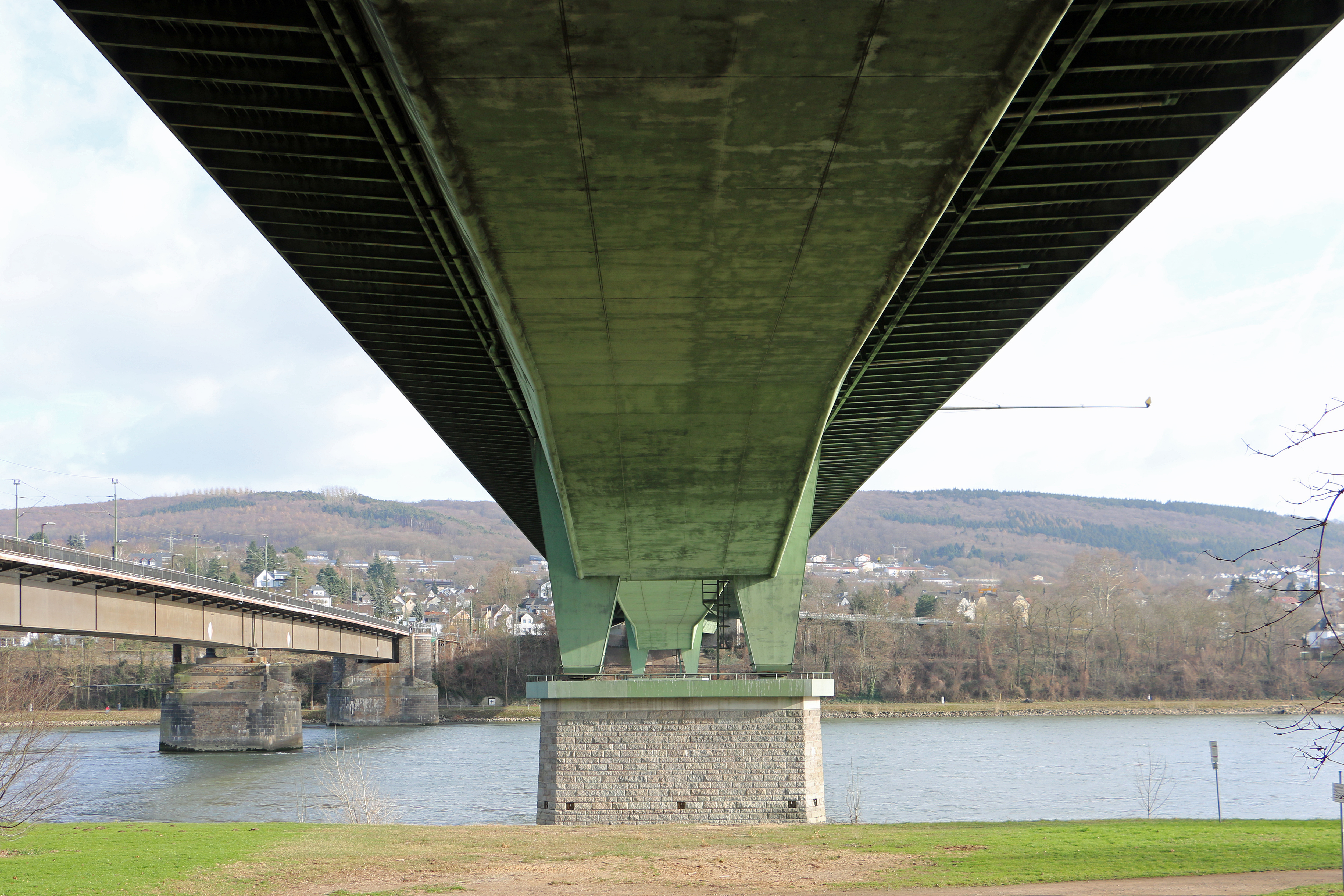 Südbrücke in Koblenz